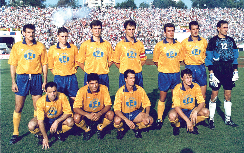 FC Petrolul Ploiești squad 1994-95 Divizia A season.